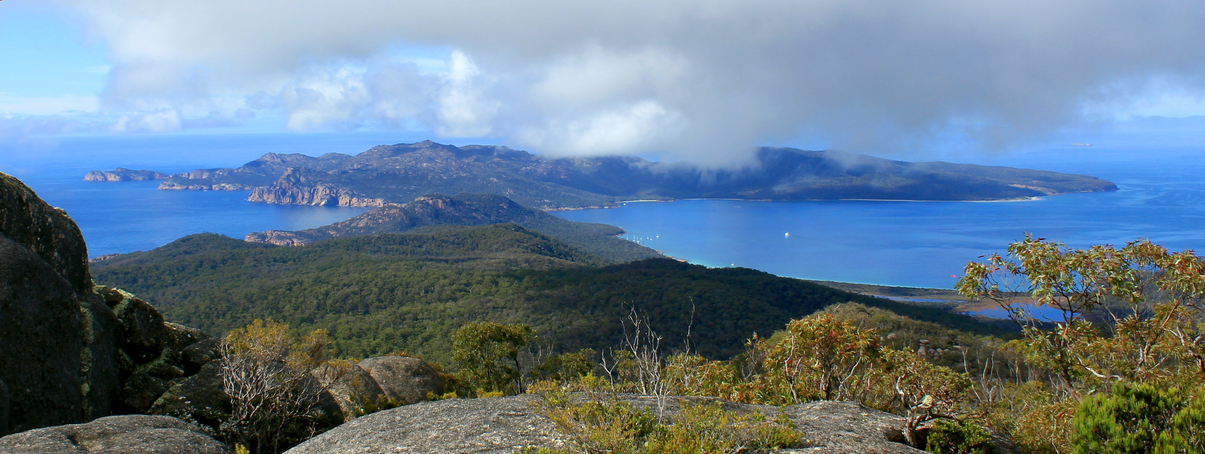 Schouten Island, Tasmania, Australia, as viewed from the top of Mount Freycinet